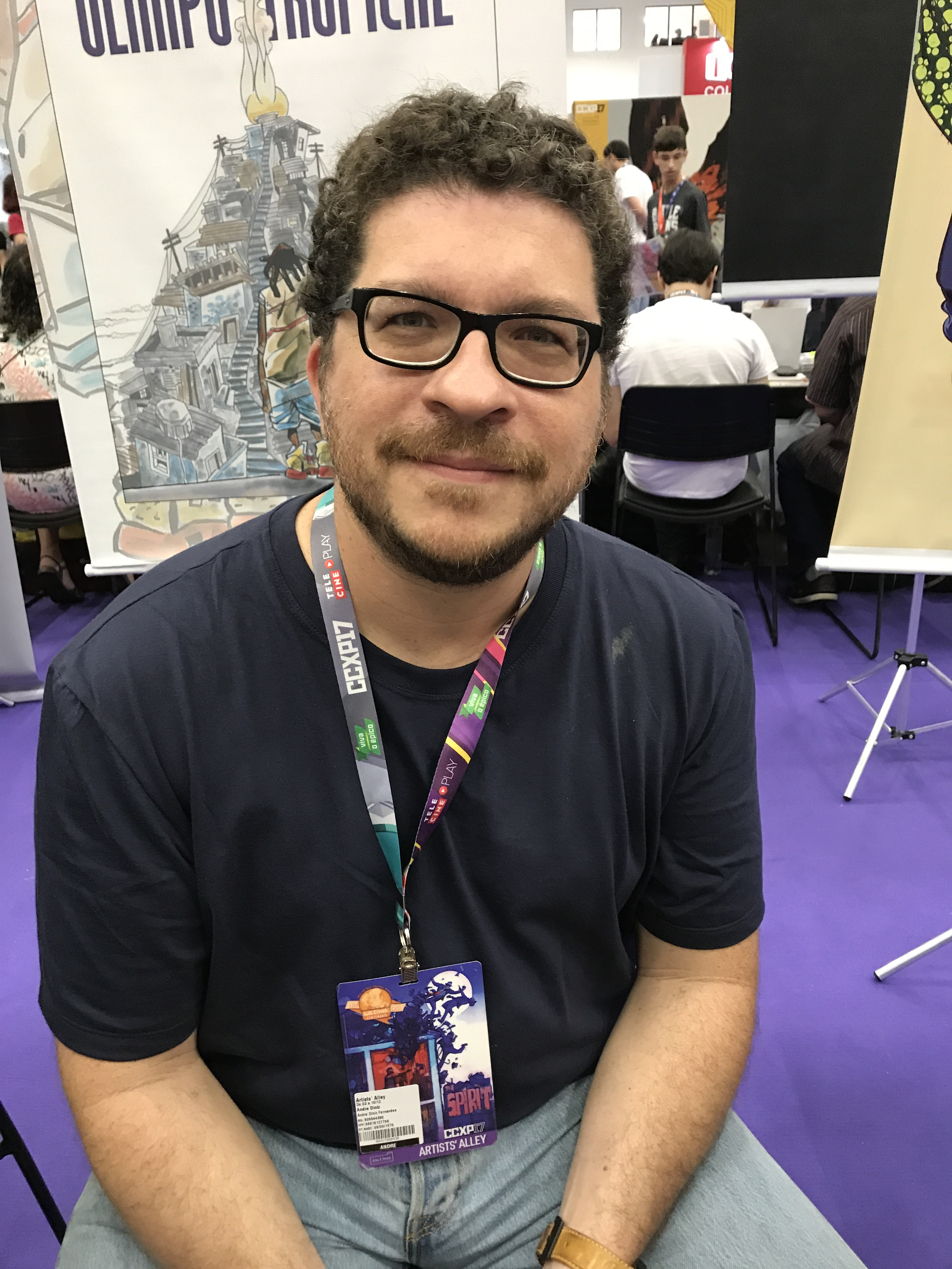 Artist André Diniz in 2017 edition of Comic Con Experience